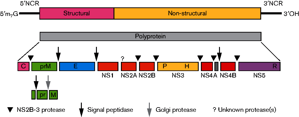 Genome organization and polyprotein processing of members of the genus Flavivirus. Boxes below the genome indicate viral proteins generated by proteolytic processing. NCR, non-coding region.